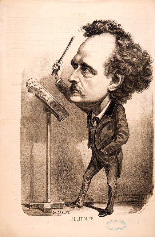 Henry Charles Litolff. Henry Litolff died in 1891. This picture is an unknown caricature when Litolff was about 30 years old... drawn near 1850.